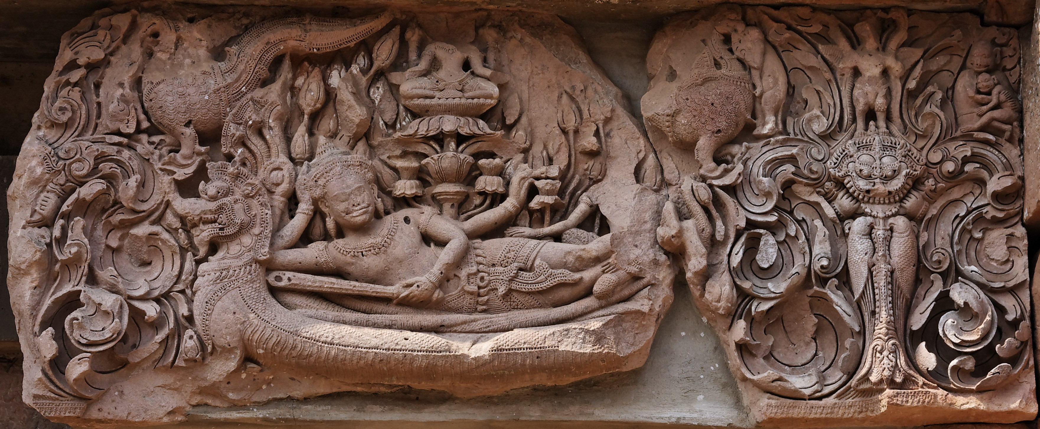 Reclining Vishnou on a reachisey, Prasat Phnom Rung, Thailand